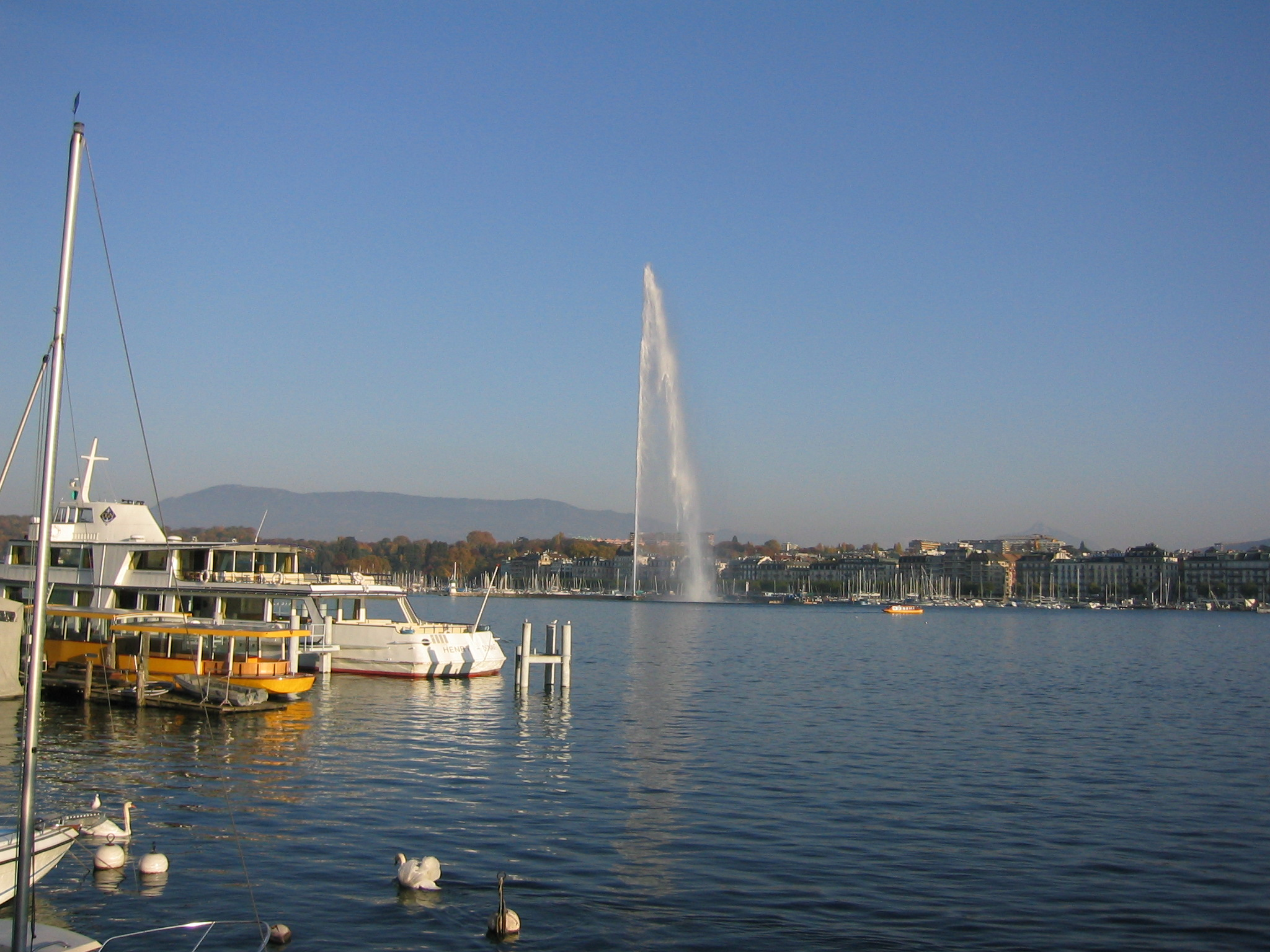 Geneva (Switzerland)